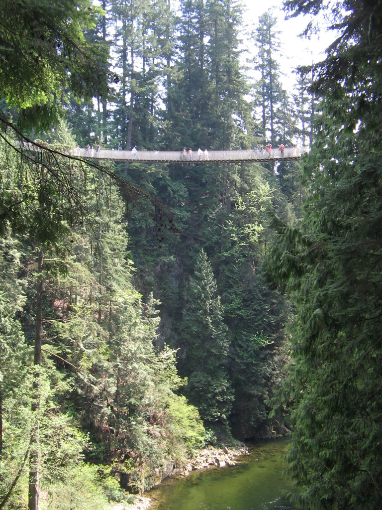 The following is the author's description of the photograph quoted directly from the photograph's Flickr page. "Scary! "